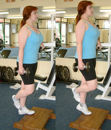 Thanks go to the model, Emily.